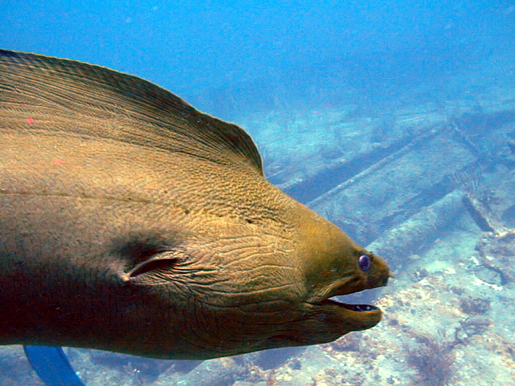 Green moray, Gymnothorax funebris